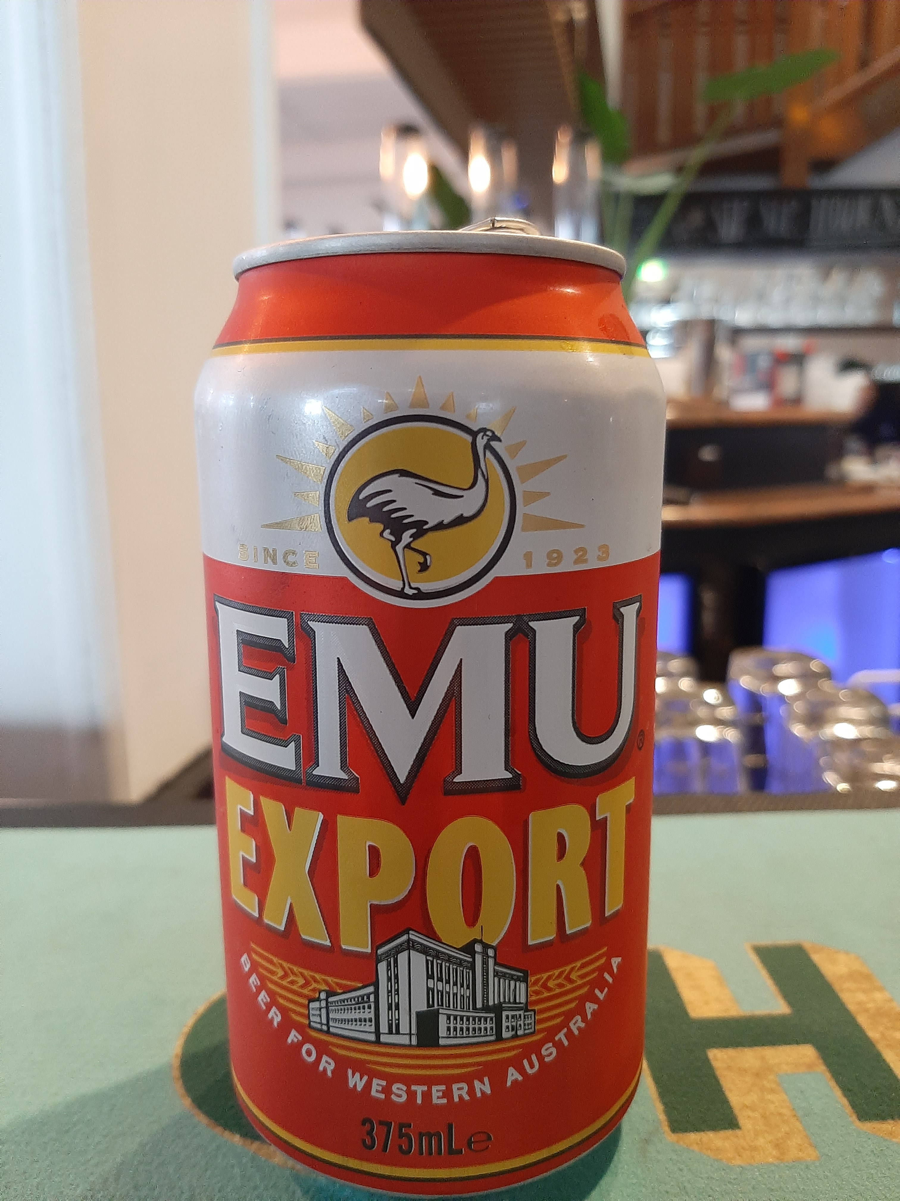 Emu Export beer. 365mL can